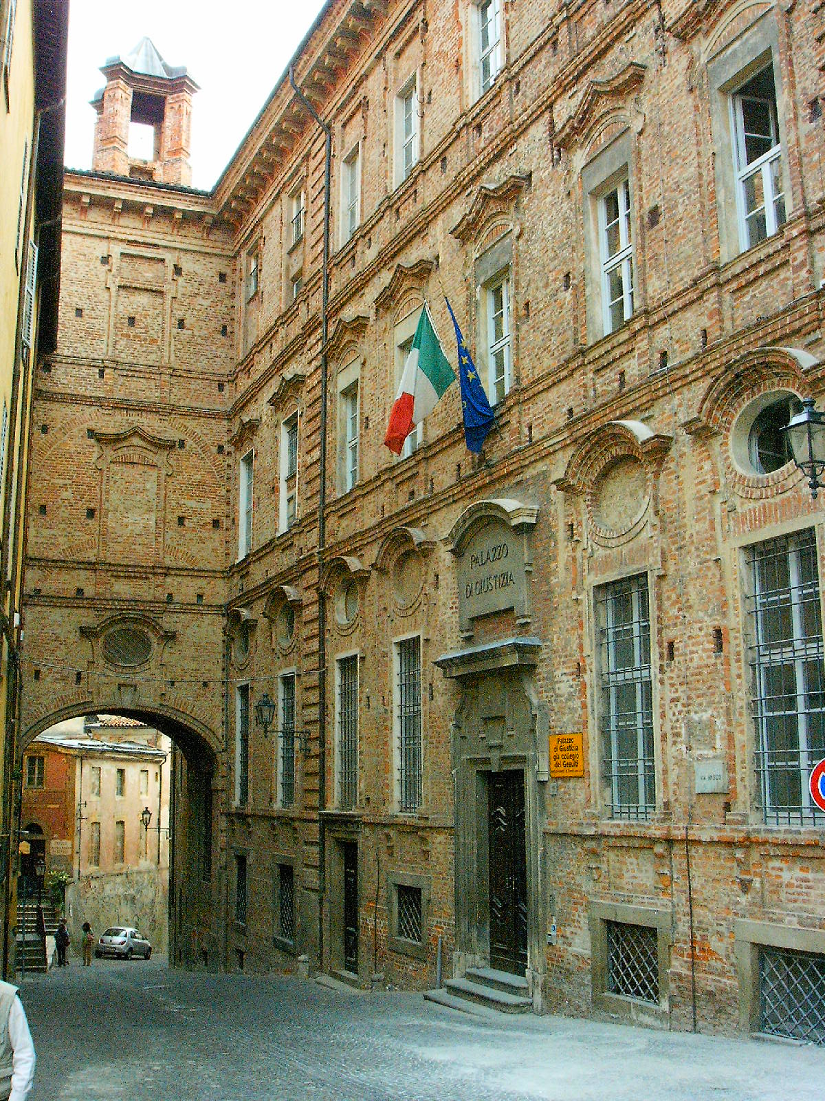 The Courthouse in Mondovì, Italy.